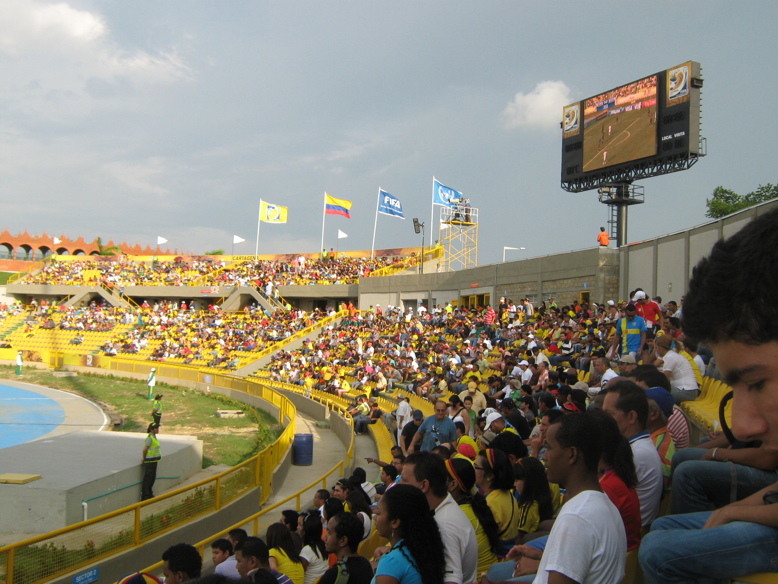 South end at Jaime Morón Stadium